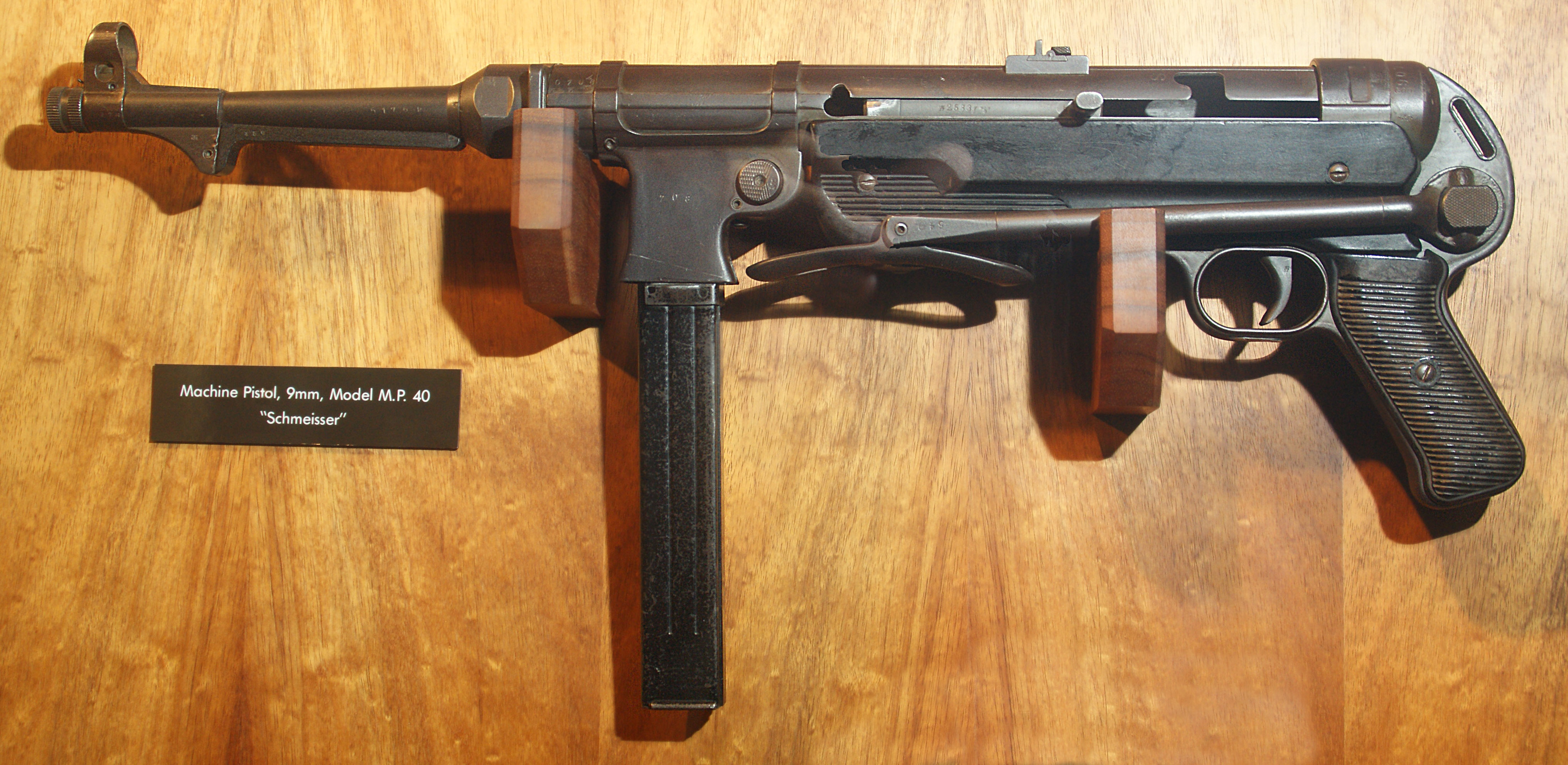 Exhibit caption: Machine pistol, 9mm, Model M.P. 40 "Schmeisser". Exhibited at: Battery Randolf US Army Museum, Honolulu, Hawaii.